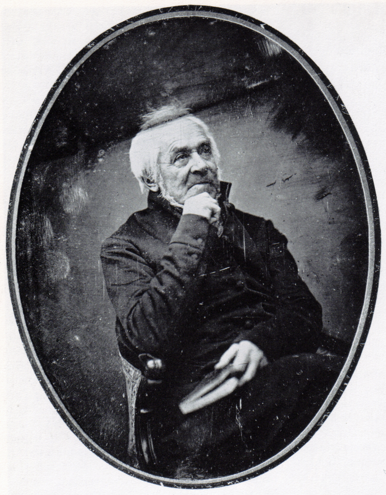 Ernst Moritz Arndt (1769-1860), German poet, as a member of the German National Assembly in 1848